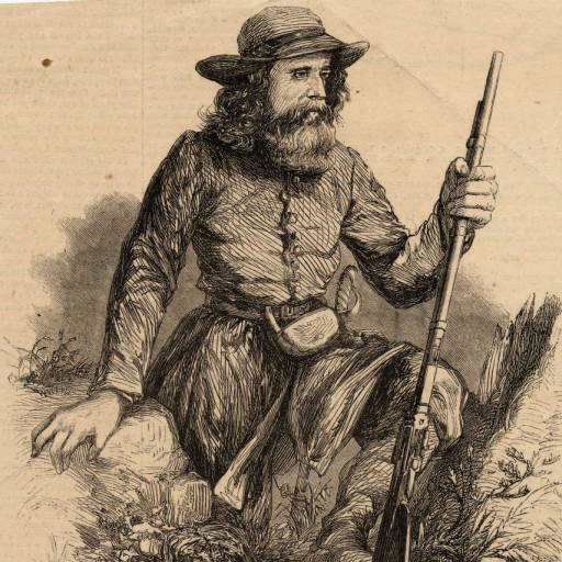 Truman Head, aka California Joe, the celebrated sharpshooter of Berdan's Regiment, now before Richmond, Va. From a sketch by our special artist, J. H. Schell, p.310.